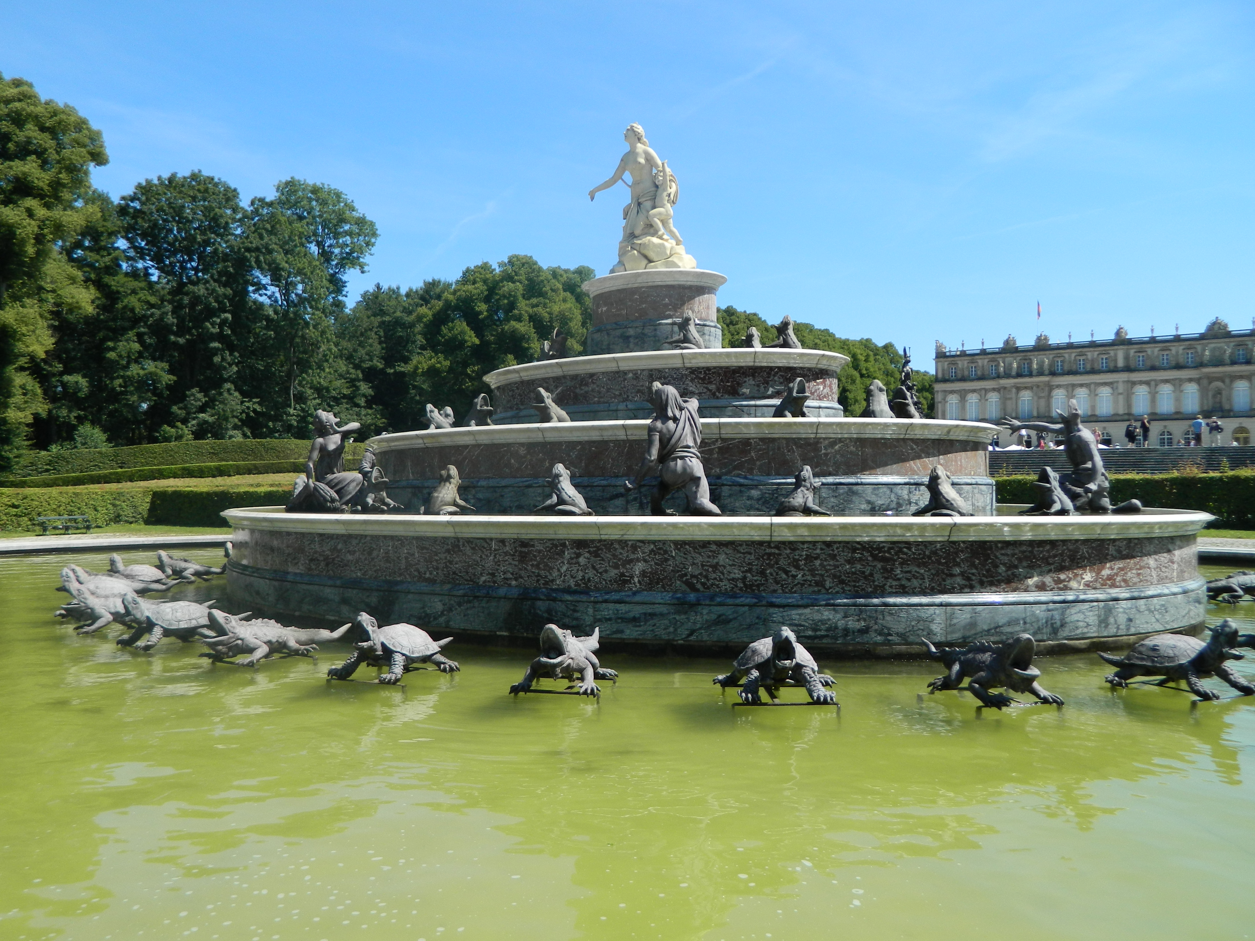 This is a photograph of an architectural monument.